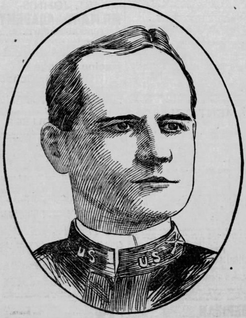 Jules Garesche Gary Ord (US Army officer)